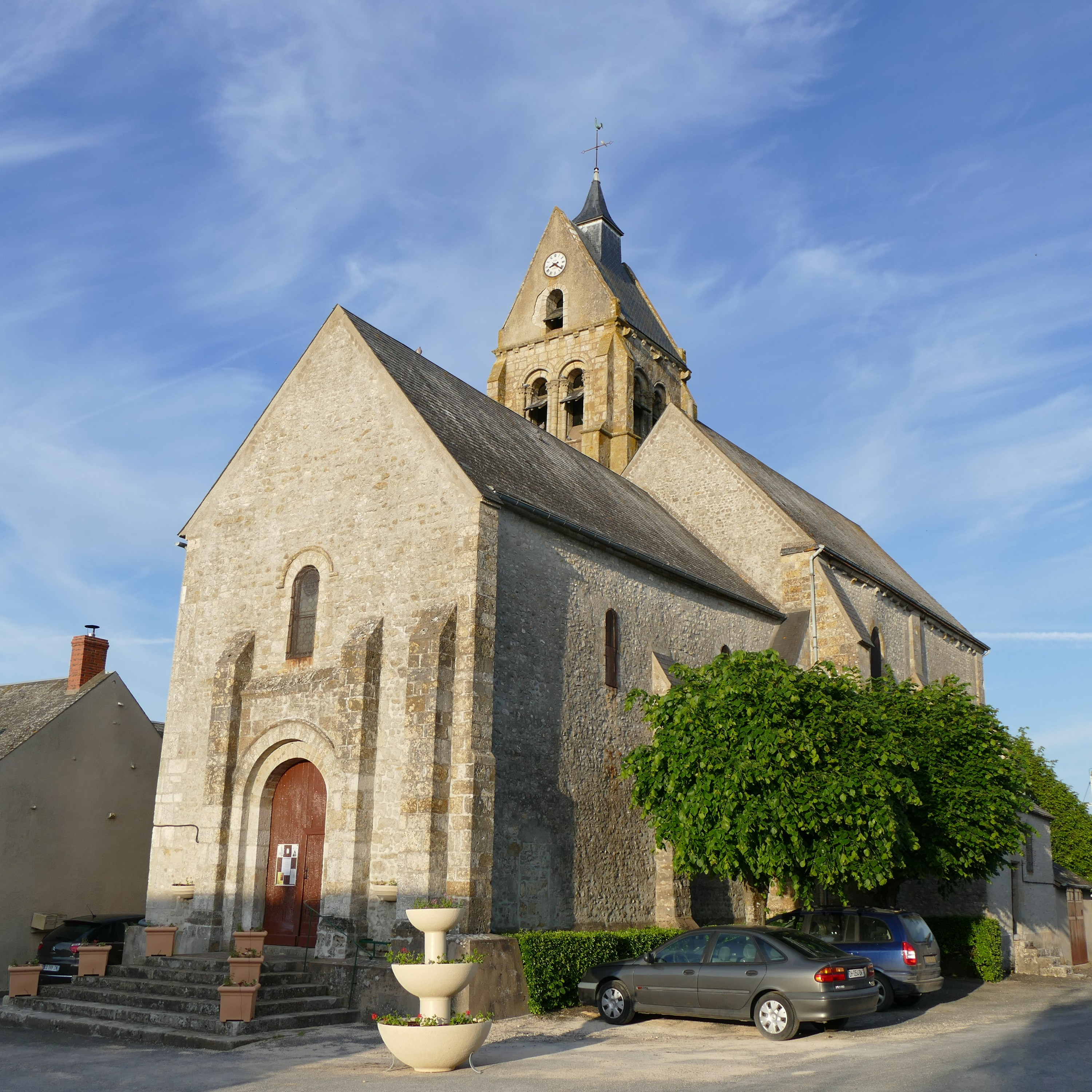 Saint-Félix's church in Guignonville (Greneville-en-Beauce, Loiret, Centre-Val de Loire, France).